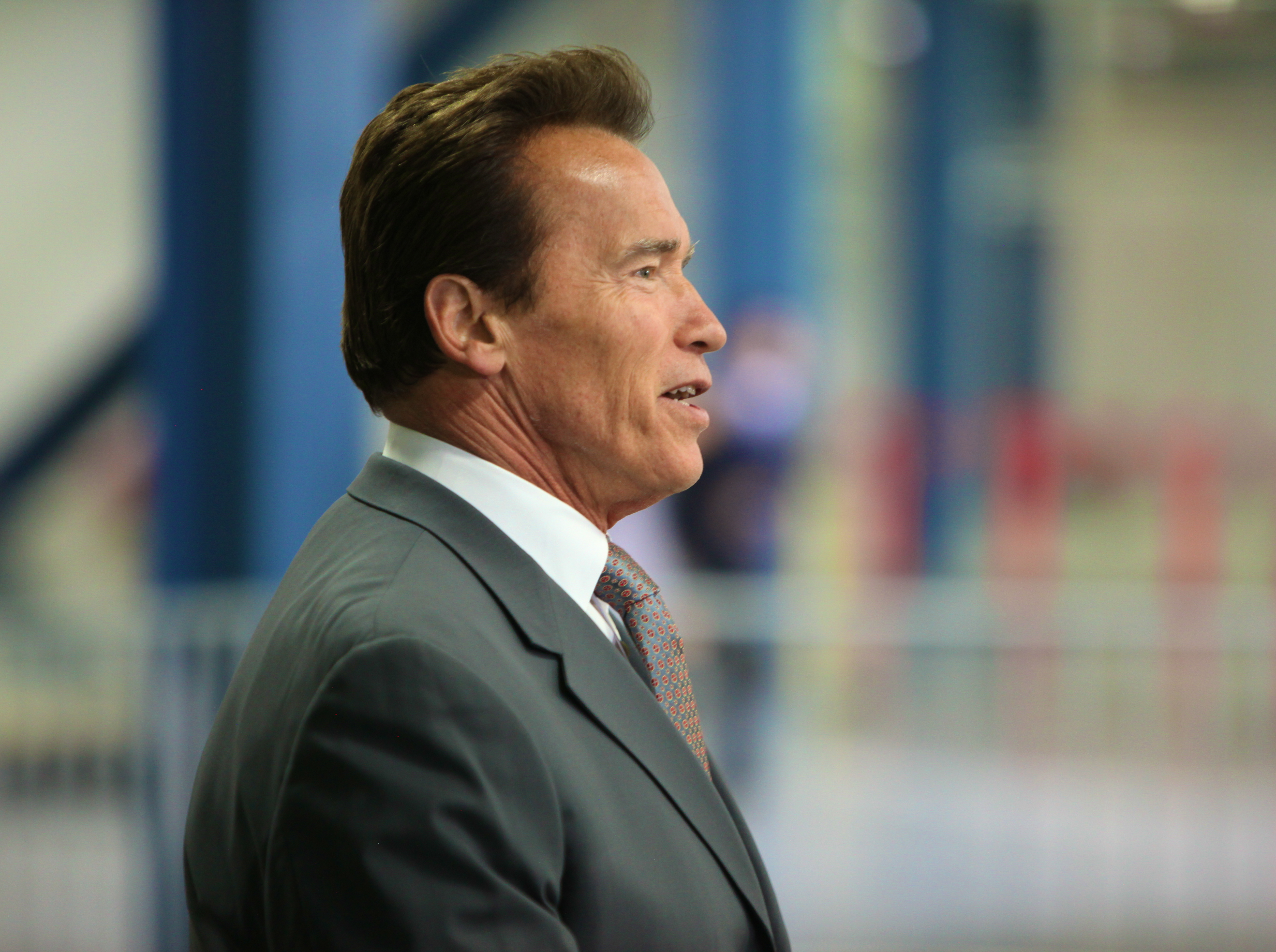 Walking up to greet the construction workers today, having just met with President Obama